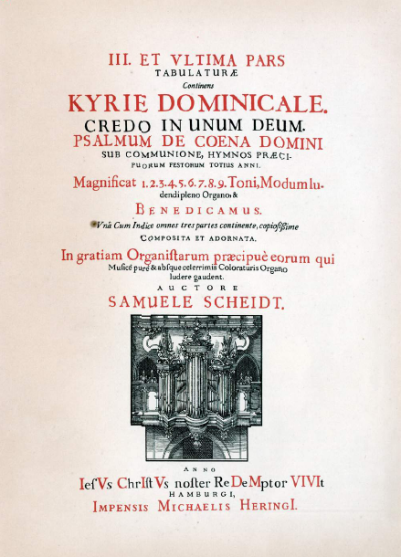 Title page of Part III of Tabulatura Nova for organ